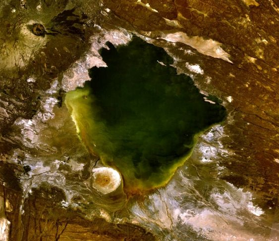 Lake Abbe between Ethiopia and Djibouti, see Lake Abbe